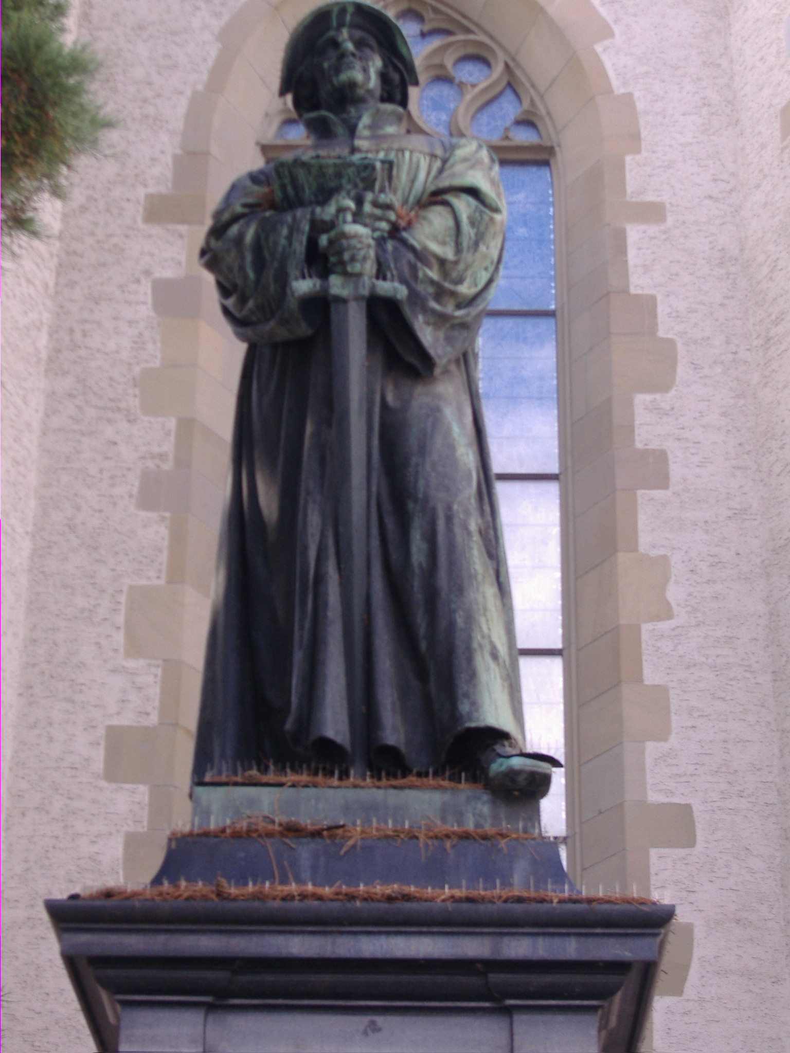 Zwingli monument in Zurich